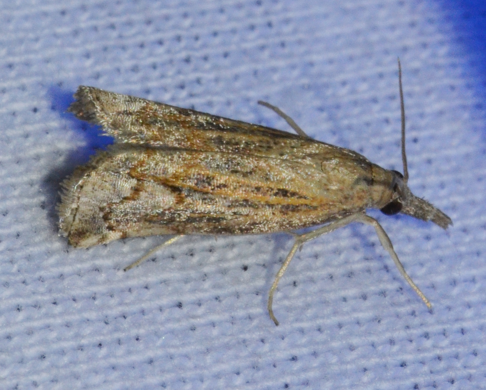 Mothing 7/6/14